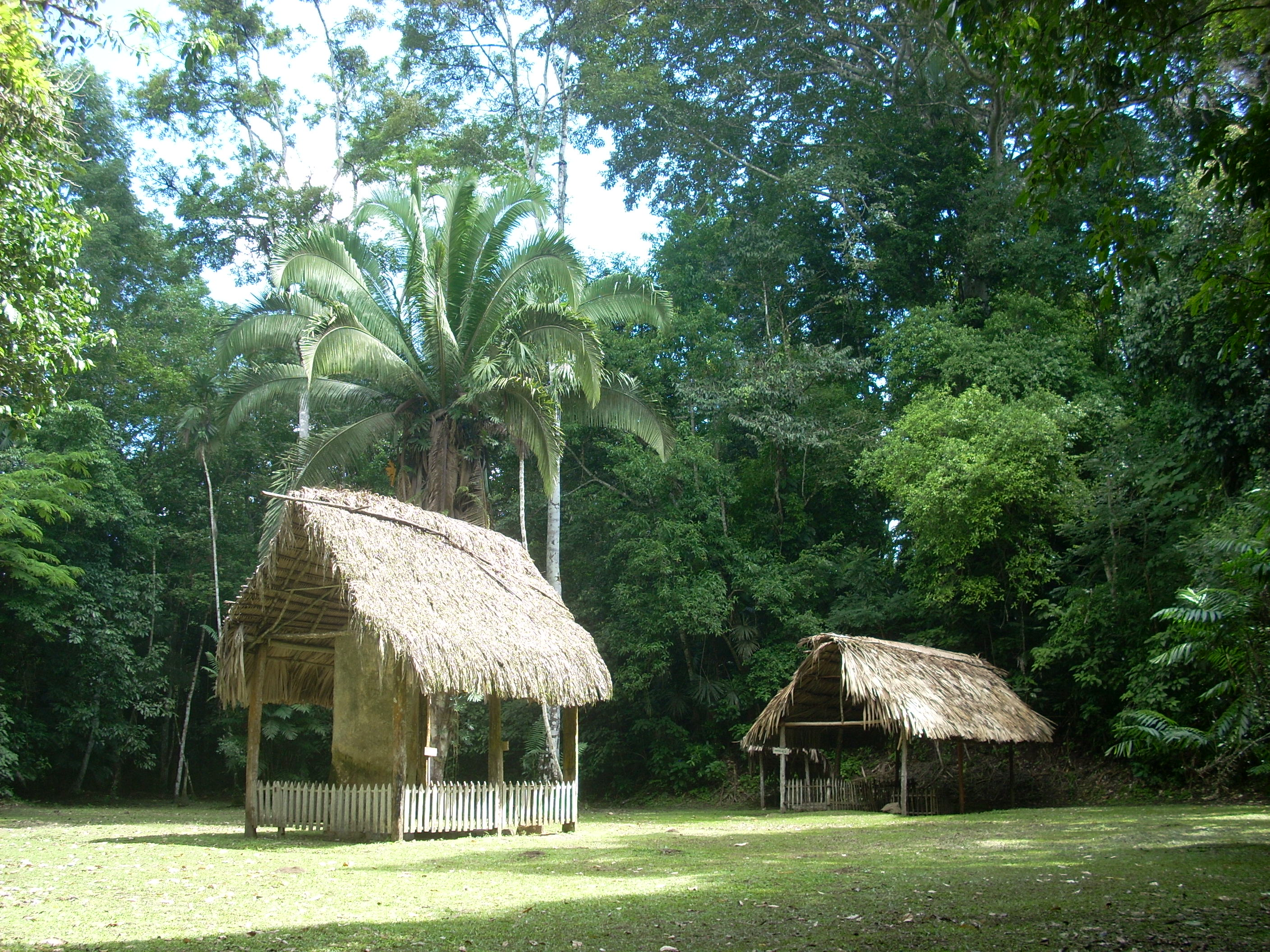 Central Plaza at Ixkun, with Stelae 1 and 2. Peten, Guatemala.